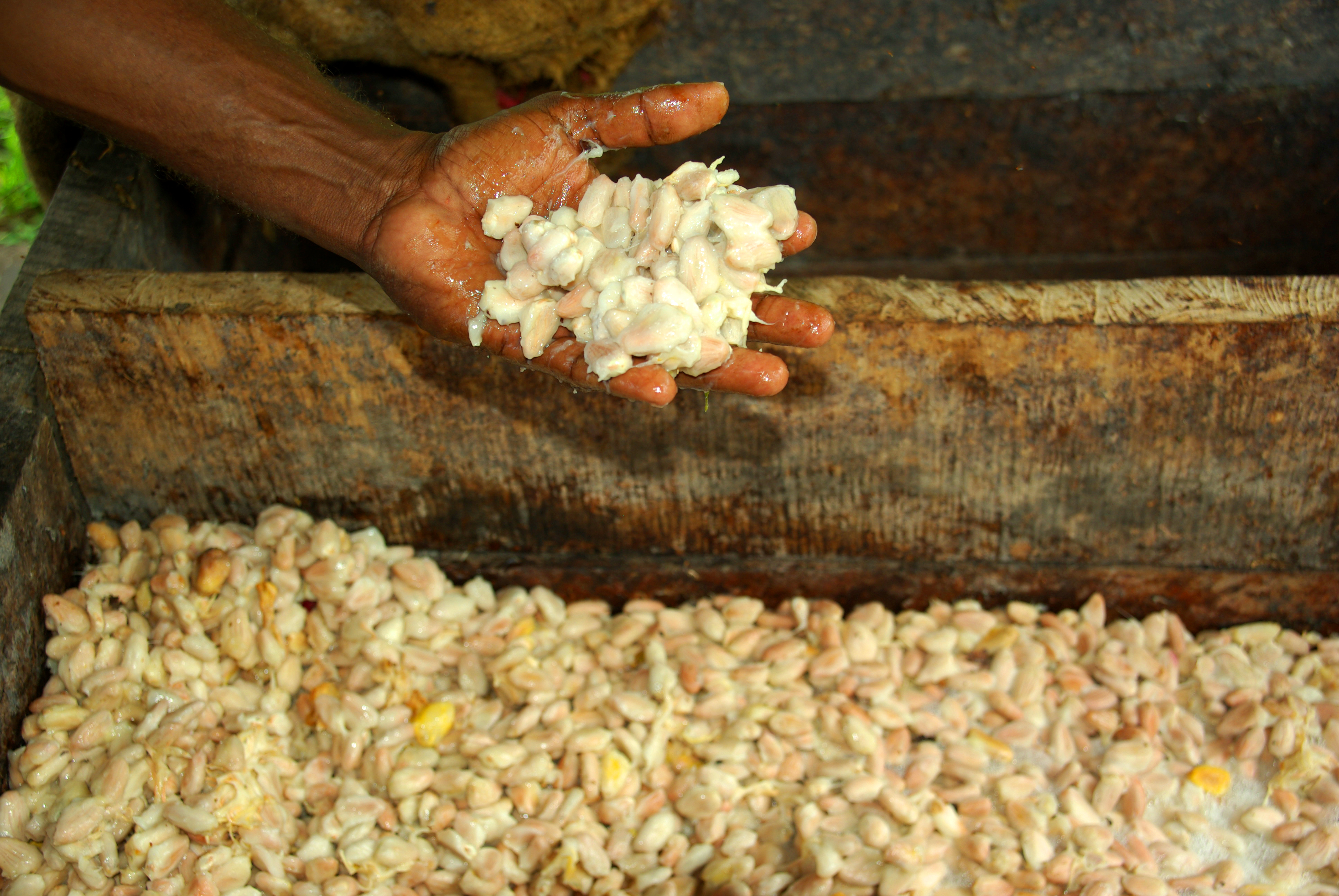 Cocoa farmer David Kebu Jnr holding fermenting cocoa beans. Photo taken by Irene Scott for AusAID. (13/2529)